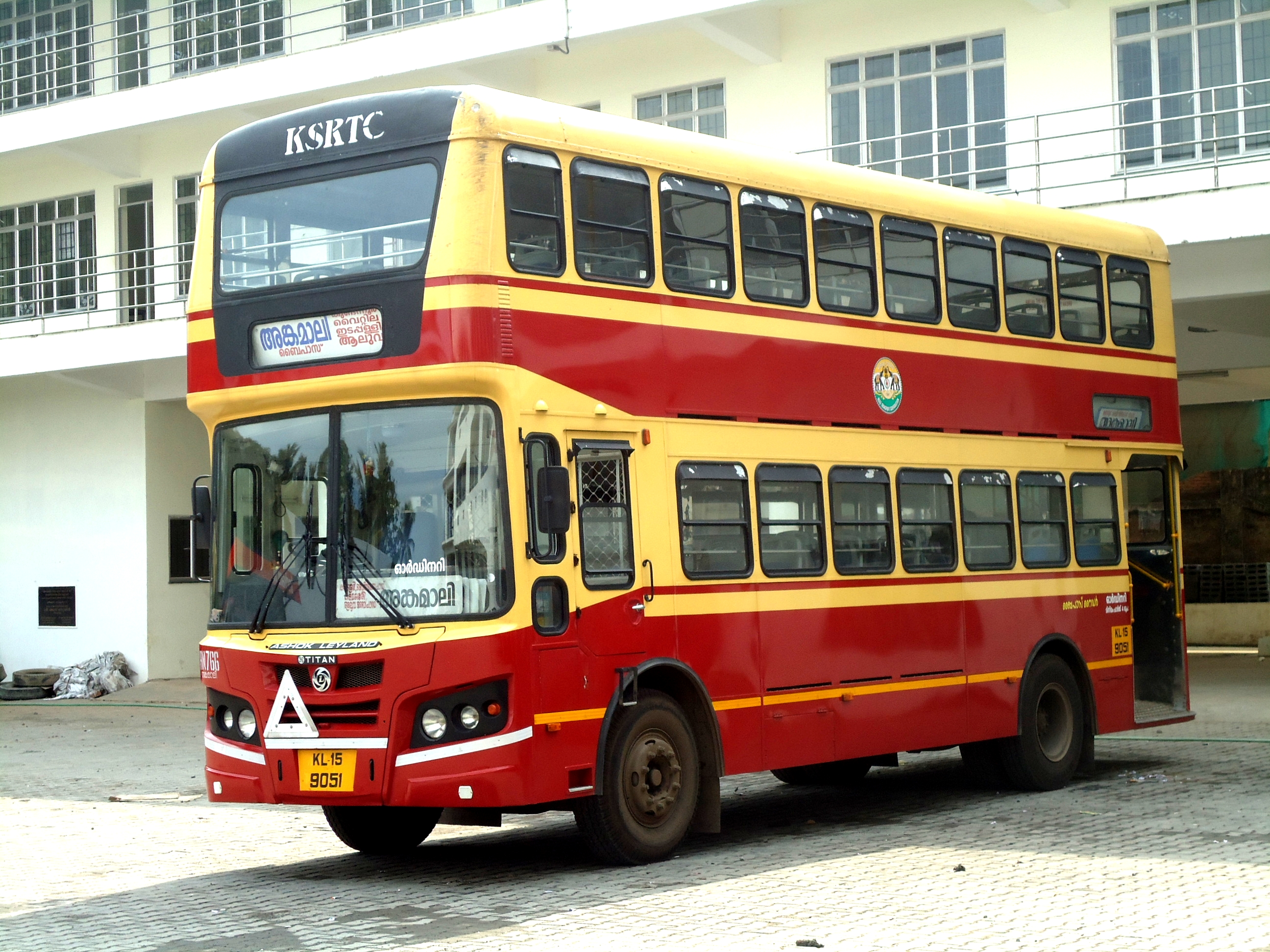 This media file is uploaded with Malayalam loves Wikimedia event - 2. Double Decker Bus Kochi